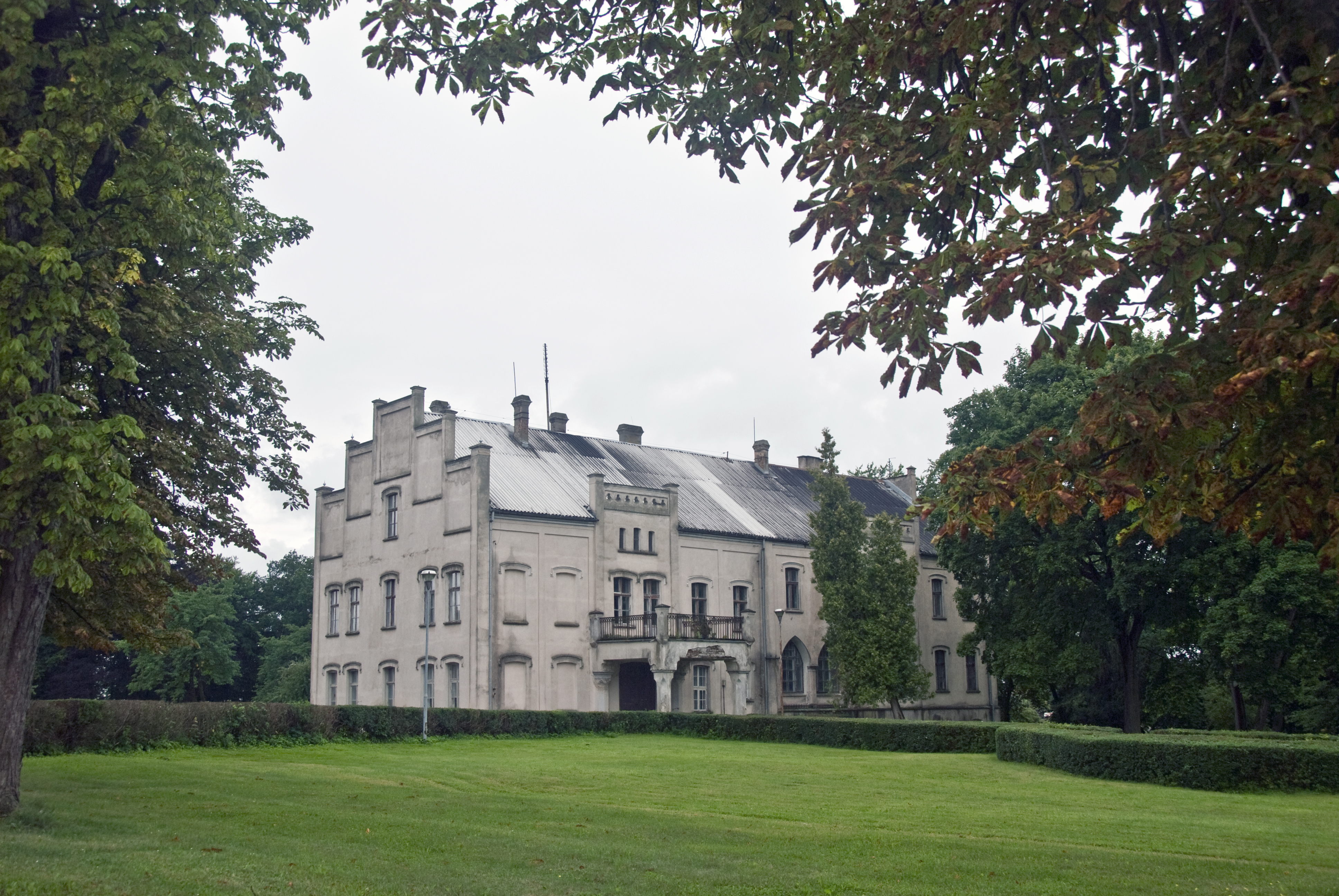 Palace in Główczyce